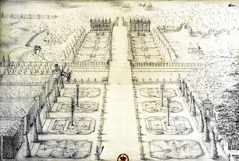 Baroque Gardens of Branicki Palace, in Białystok, Poland. 18th-century print by architect Pierre Ricaud de Tirregaille (French).